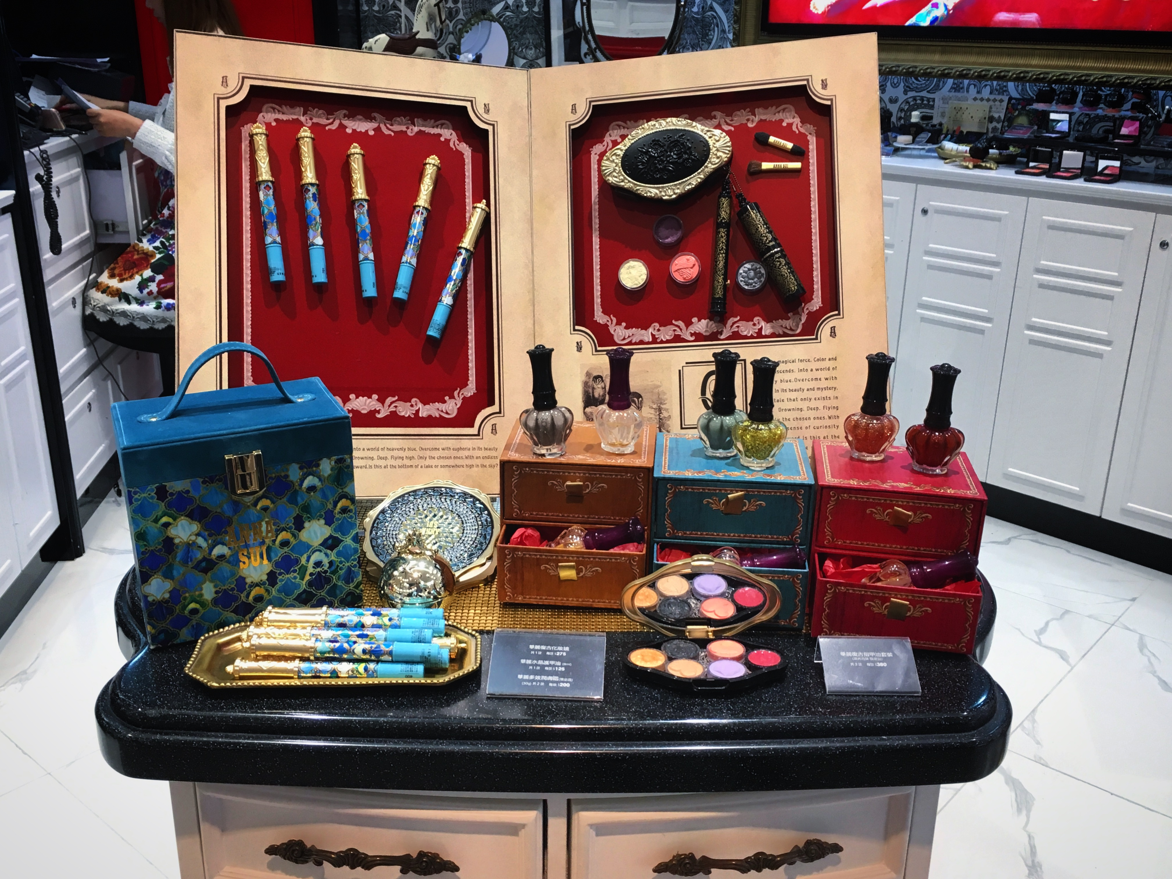 The Anna Sui store at Sogo, Causeway Bay in Hong Kong.